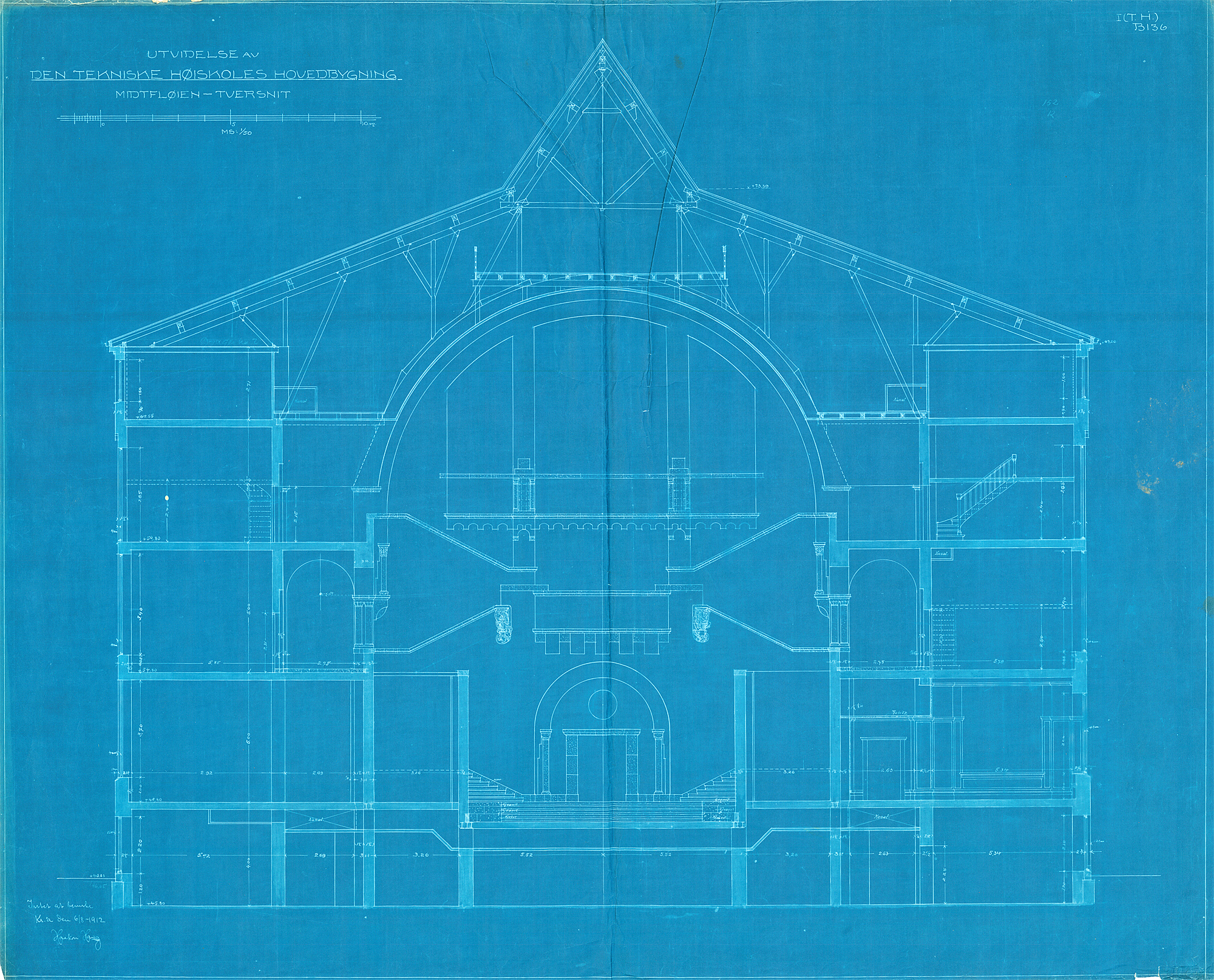 Cross-section of the center south wing of the main building(="Hovedbygningen") at Campus NTNU Gløshaugen in Trondheim, Norway. The 19 m wide vault was a change from the original design of a flat glass ceiling. Architect: Bredo Greve